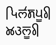 name in native script